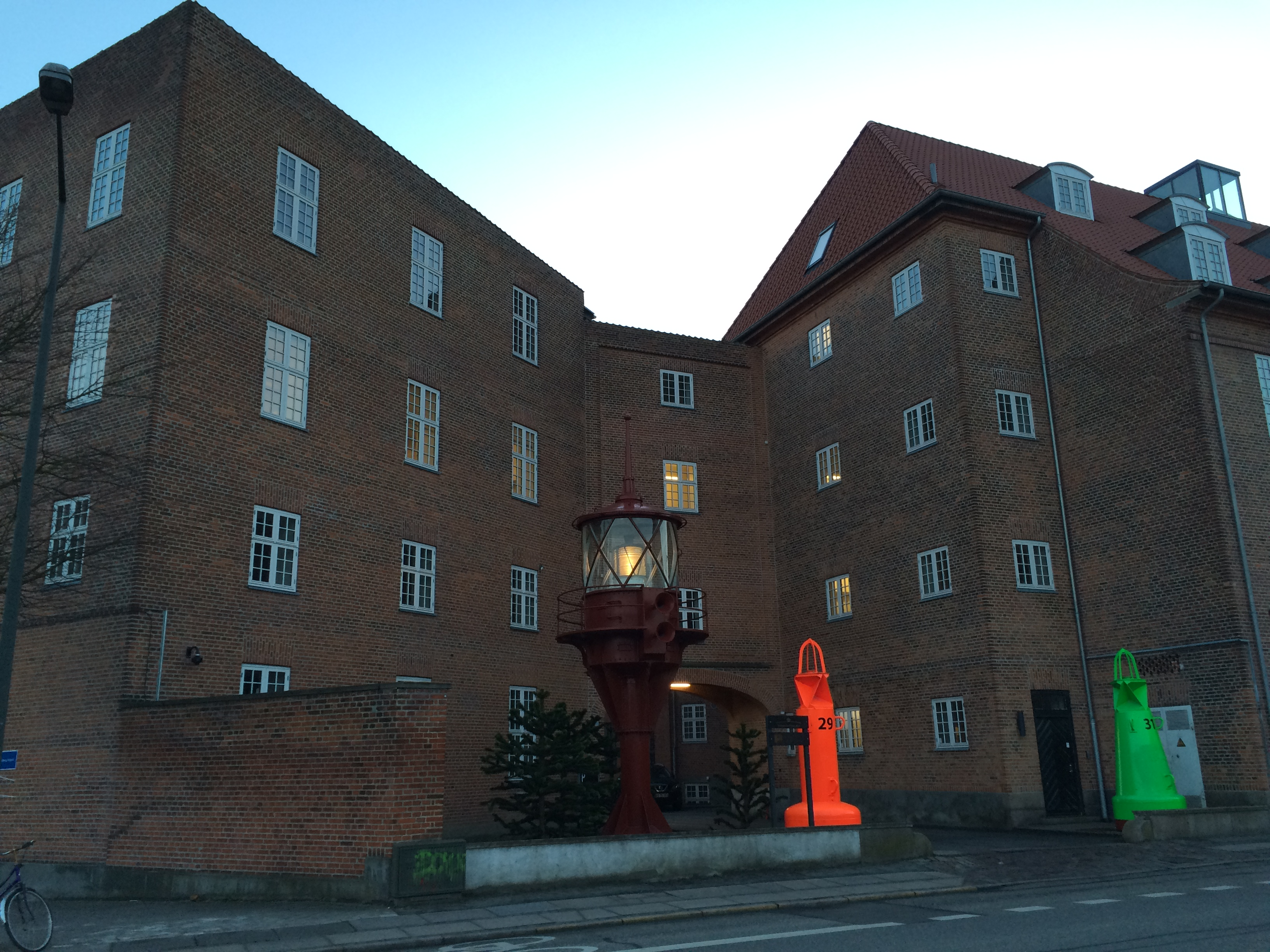 Carl Jacobsens Vej 29, Valby, Copenhagen, Denmark. Office of Danish Maritime Accident Investigation Board (Den Maritime Havarikommission)